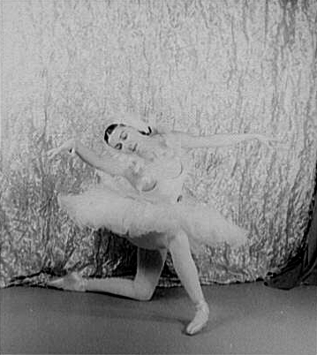 Portrait of Alicia Markova dancing The Dying Swan.